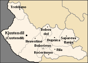 Croatian names on map of Kyustendil District (Bulgaria)